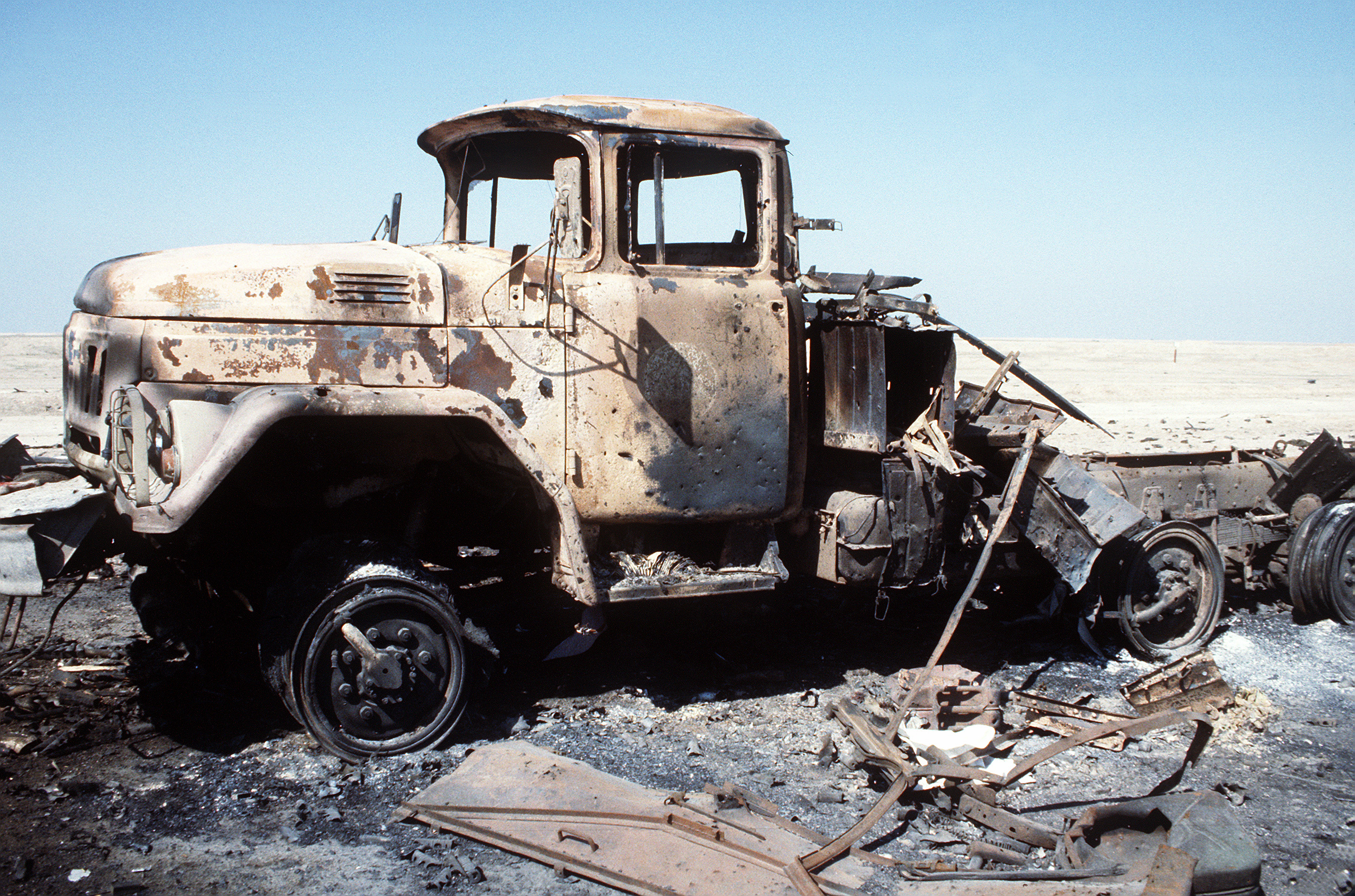 An Iraqi ZiL-137 tractor of the Republican Guard destroyed during Operation Desert Storm.